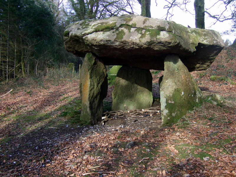 Gwal-y-filiast from the southwest Four upright stones support the capstone with the 'opening' seen here facing west towards the river in the valley below. On this visit there was an assortment of sticks inside the chamber and a scattering of mussel shells within and without, which must have been brought here for some purpose - an offering or a meal?